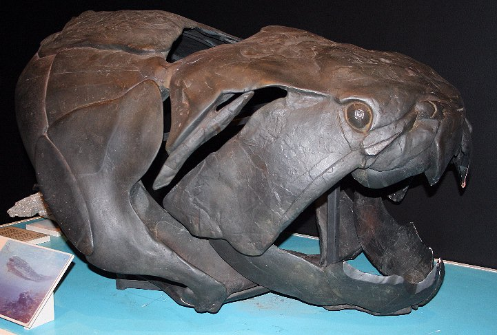 Cast of a Dunkleosteus skull on display at the Queensland Museum Brisbane (Southbank), Australia Photo